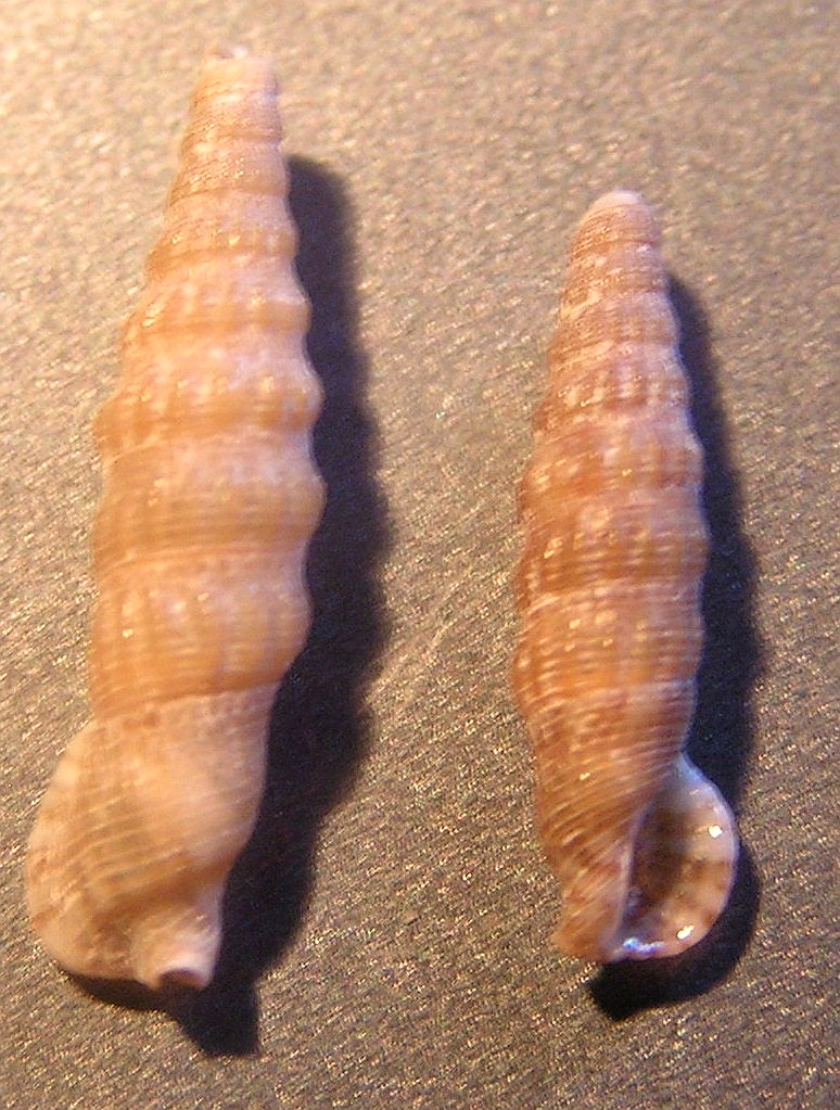 Colina macrostoma (R. B. Hinds, 1844), a sea snail in the family Cerithiidae; Philippines